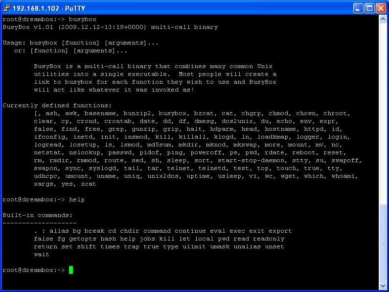 BusyBox running on Dreambox receiver.